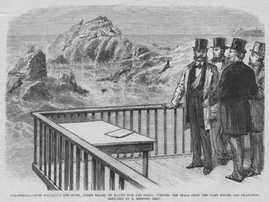 King Kalakaua of Hawaii & his entourage viewing Seal Rocks from the Cliff House, San Francisco, CA. Caption reads: CALIFORNIA – KING KALAKAUA AND SUITE, UNDER ESCORT OF MAYOR OTIS AND STAFF, VIEWING THE SEALS FROM THE CLIFF HOUSE, SAN FRANCISCO. SKETCHED BY E. BEDFORD GREY.